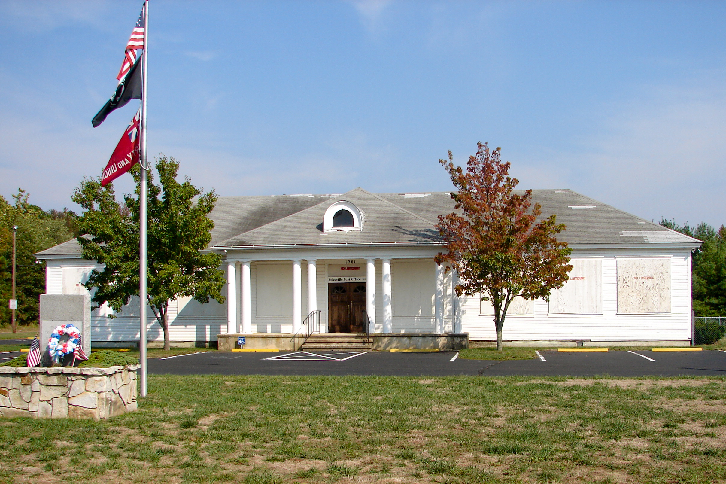 Belcoville Post Office on the NRHP since March 14, 2008. At 1201 Madden Ave. (Weymouth Township) in Belcoville, New Jersey a bit south of Mays Landing